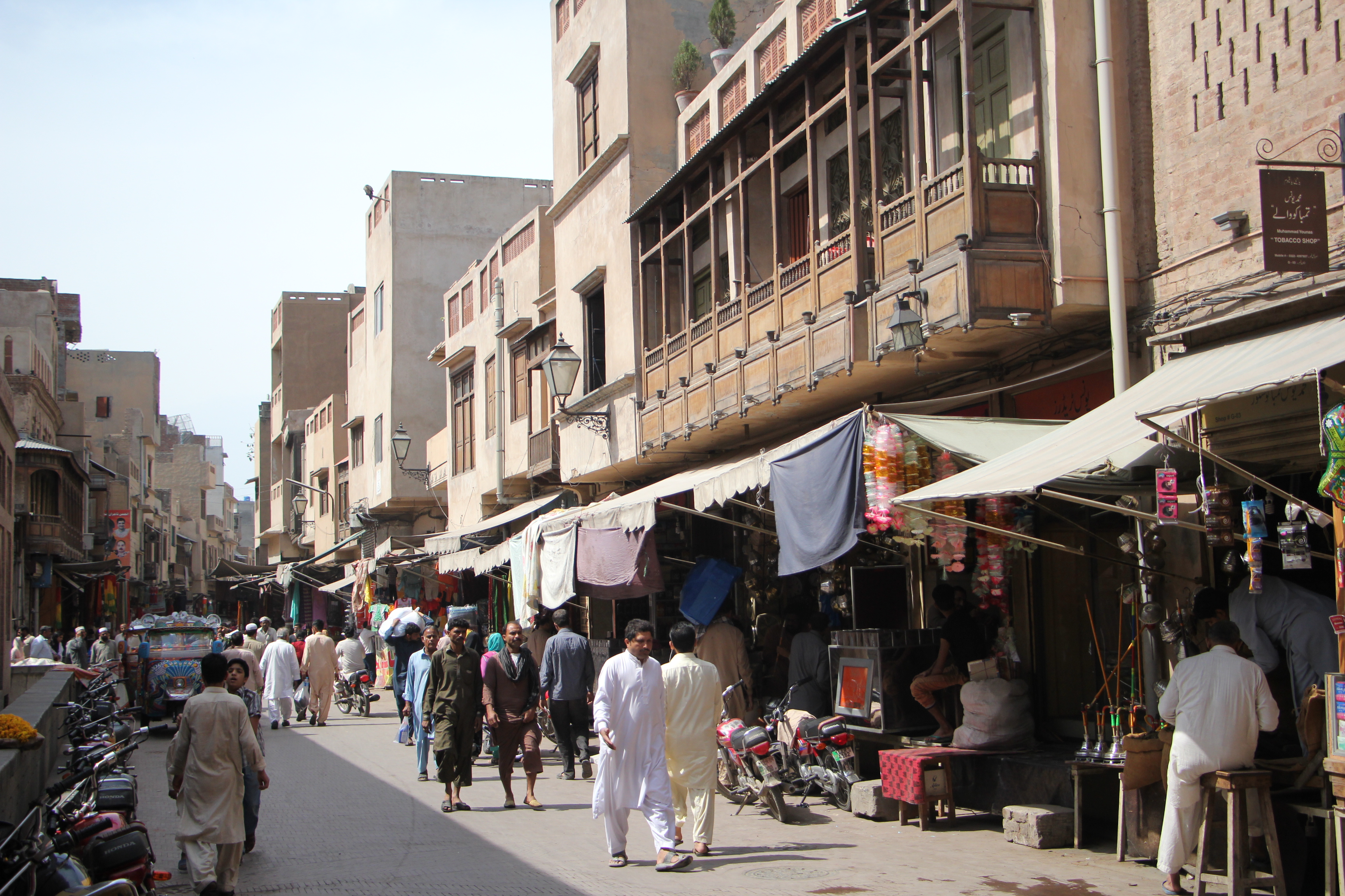 Delhi Gate This is a photo of a monument in Pakistan identified as the PB-50